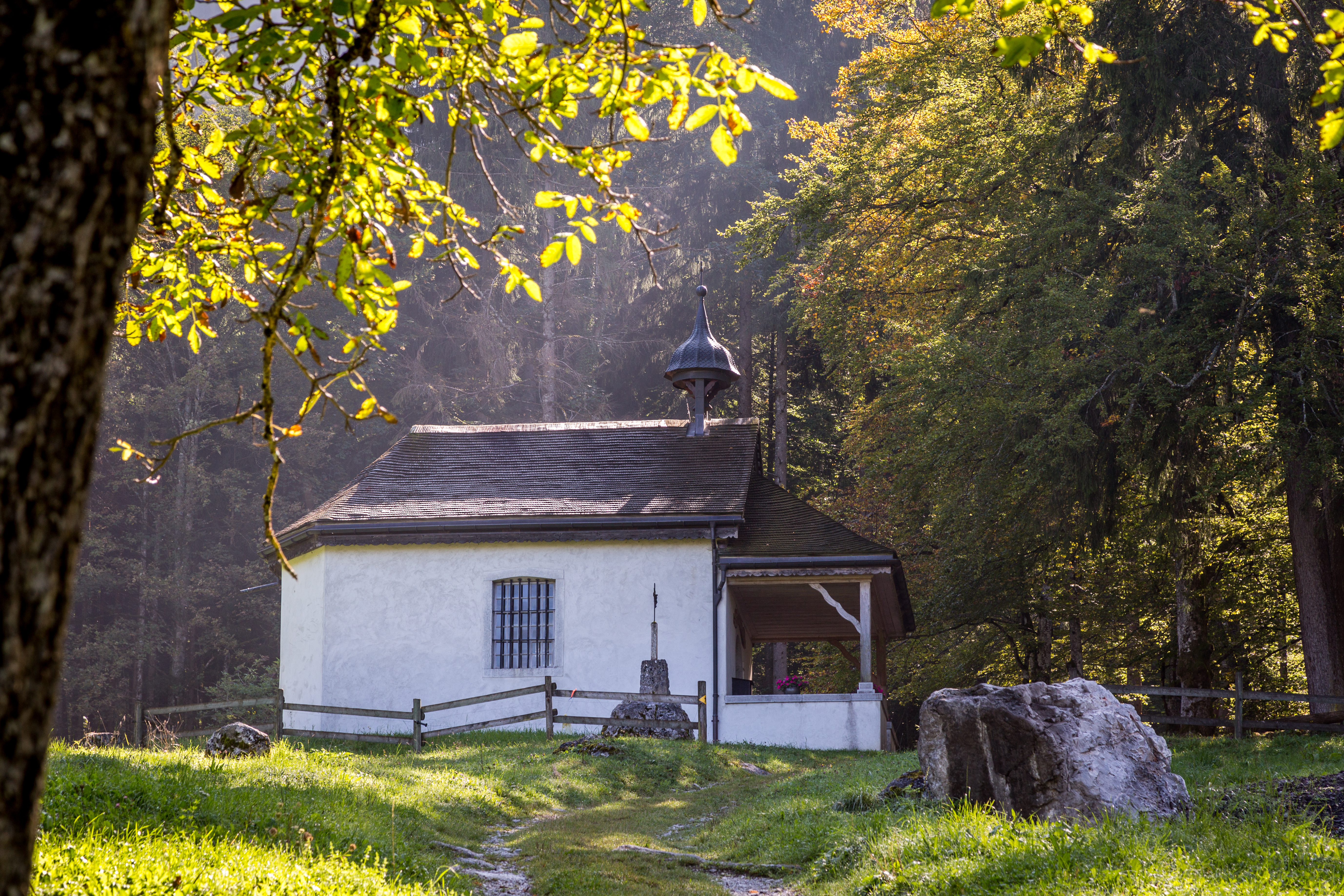 Chapelle Notre-Dame de Compassion, dite du Dâ